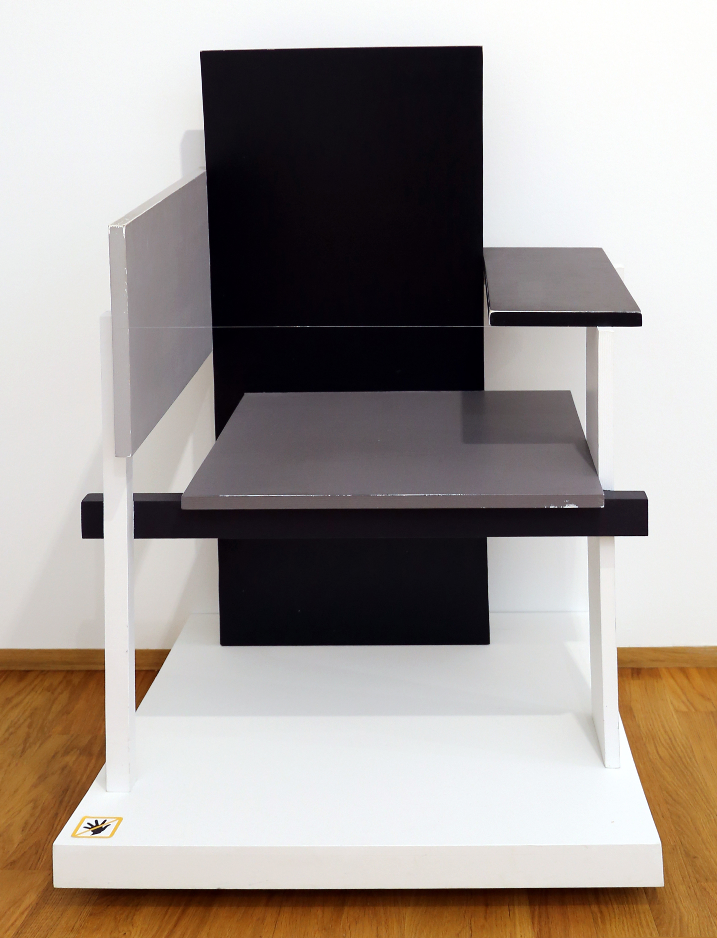 Furniture in the Gemeentemuseum Den Haag